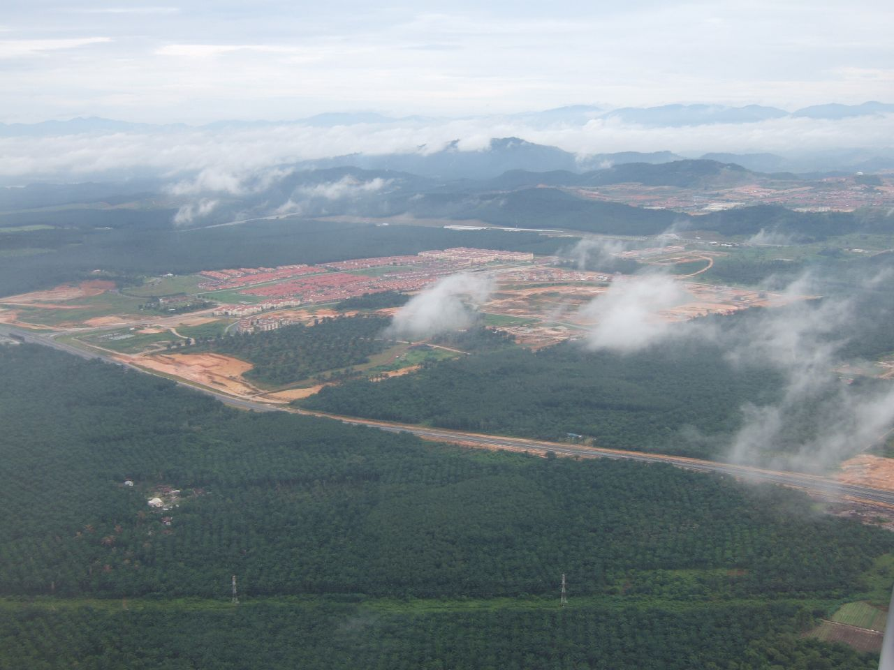 Oil palm plantations in Sarawak as seen from a plane.